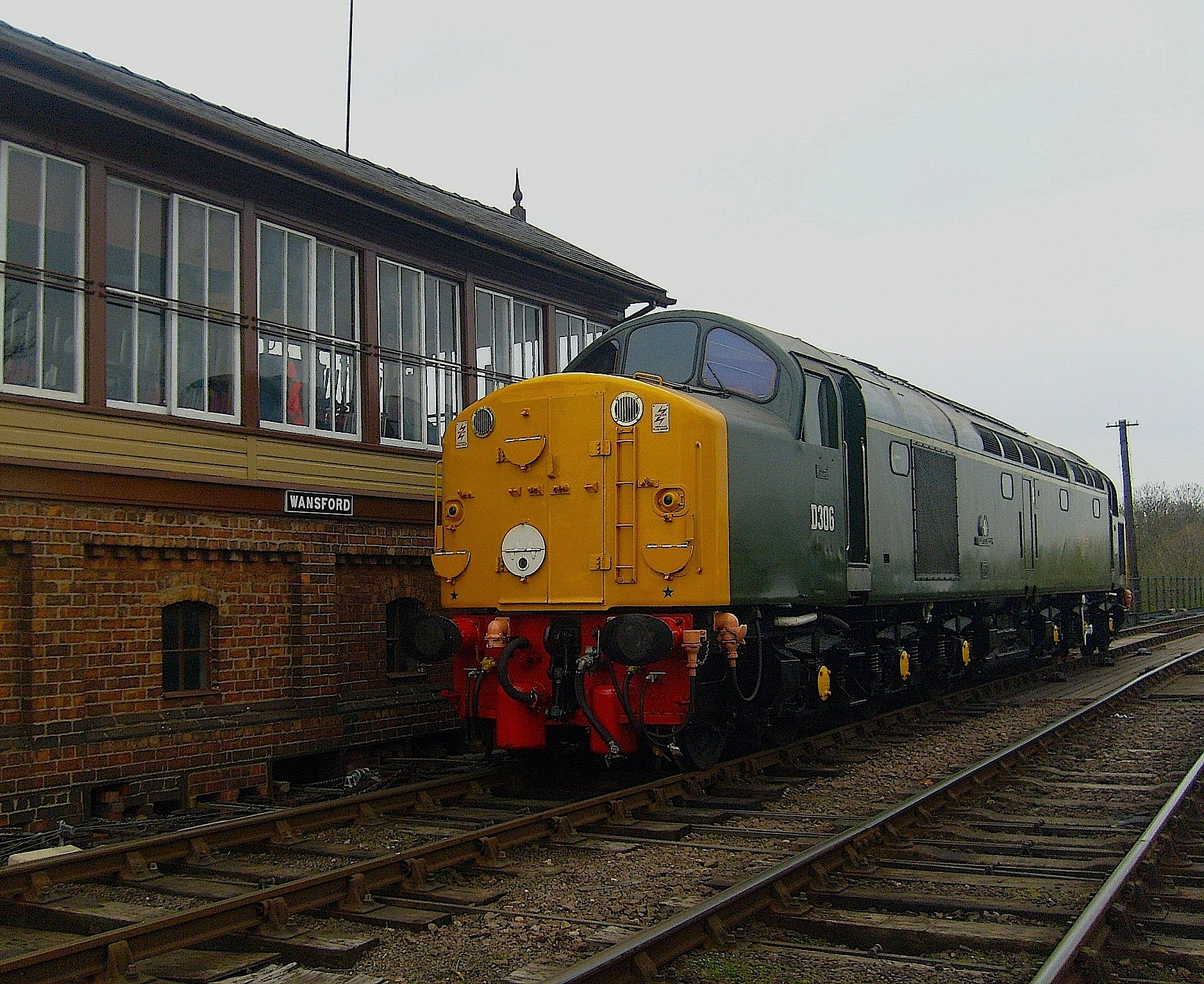 Preserved British Railways Class 40 D306 'Atlantic Conveyor' stands beside Wansford Signalbox on the Nene Valley Railway, during the 40TH Anniversary of the Class 40s Gala Weekend